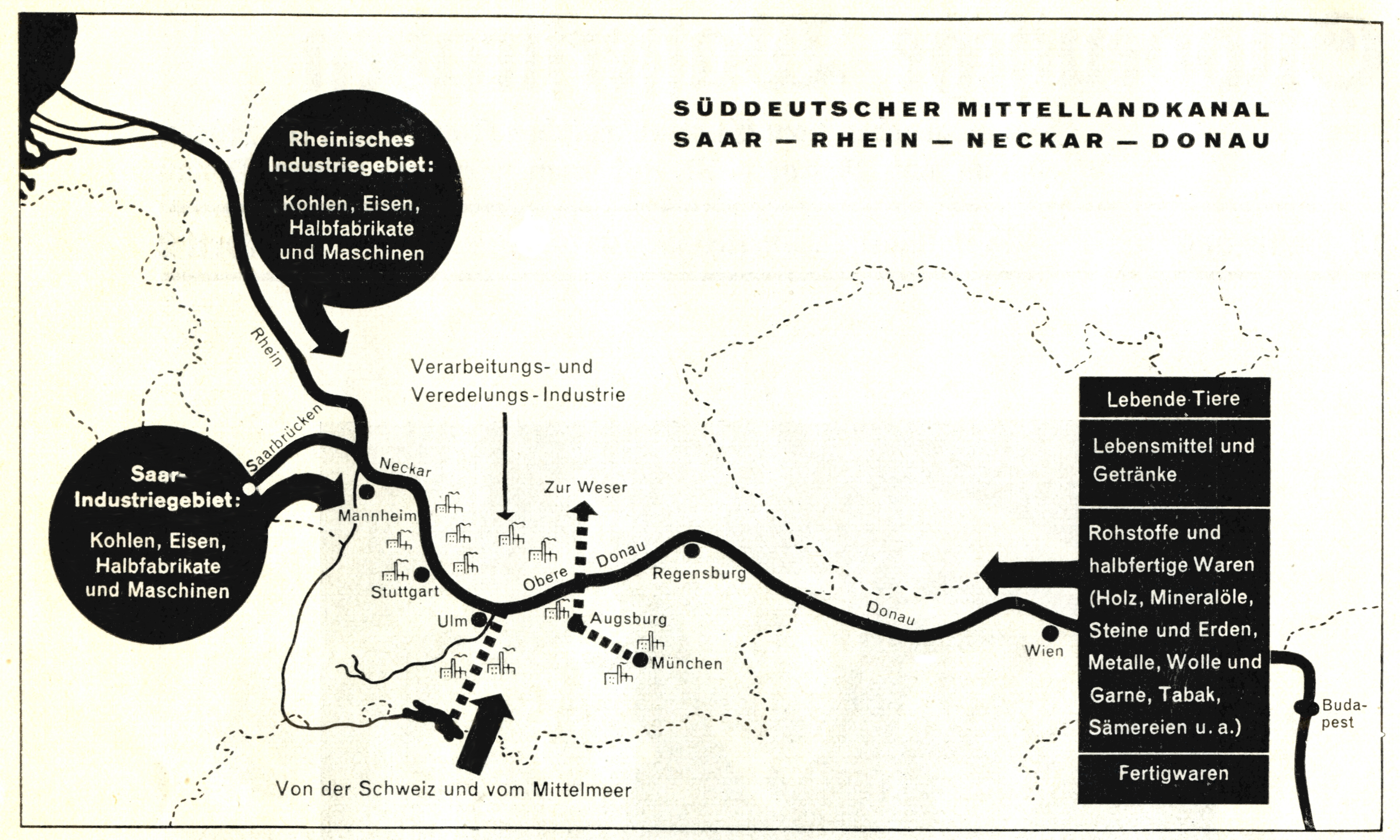 Projektplan Saar-Pfalz-Kanal 1936